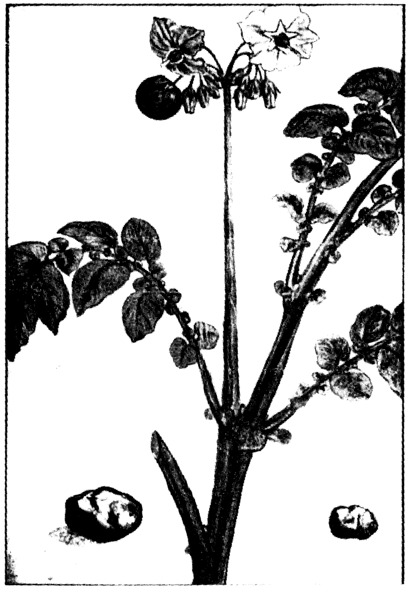 oldest European picture of Solanum tuberosum. Painting by Carolus Clusius 1583